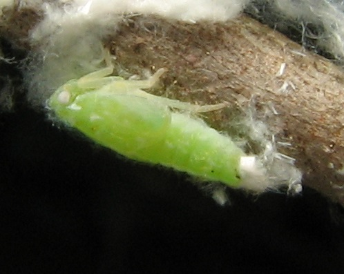 Nymph of flatid planthopper, Ormenoides venusta. Briar Bush nature Center, Montgomery County, Pennsylvania, USA.